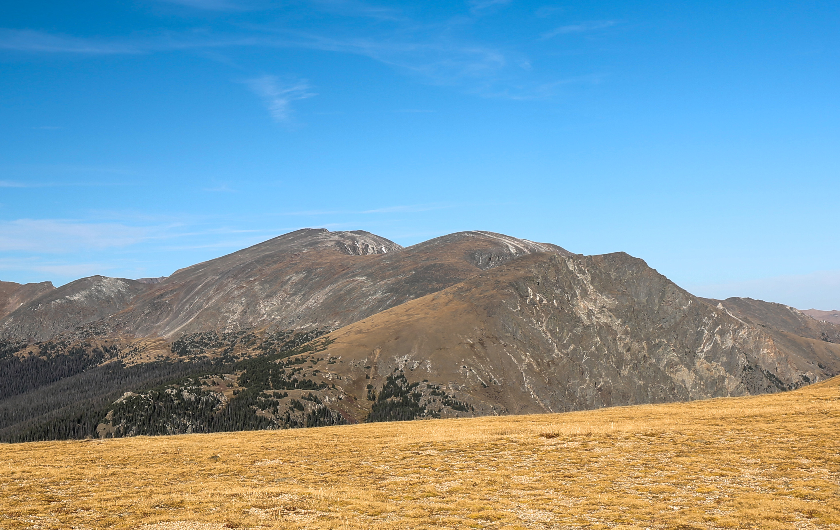 Mount Chiquita (center; elevation 13,069 feet; 3,983 meters), with Mount Ypsilon (left of center) and Mount Chapin (right), from 12,000 feet (3,700 m); near Trail Ridge Road in Rocky Mountain National Park